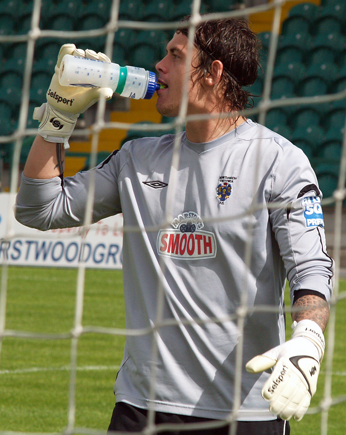 Scott Tynan. Image cropped from original at flickr.